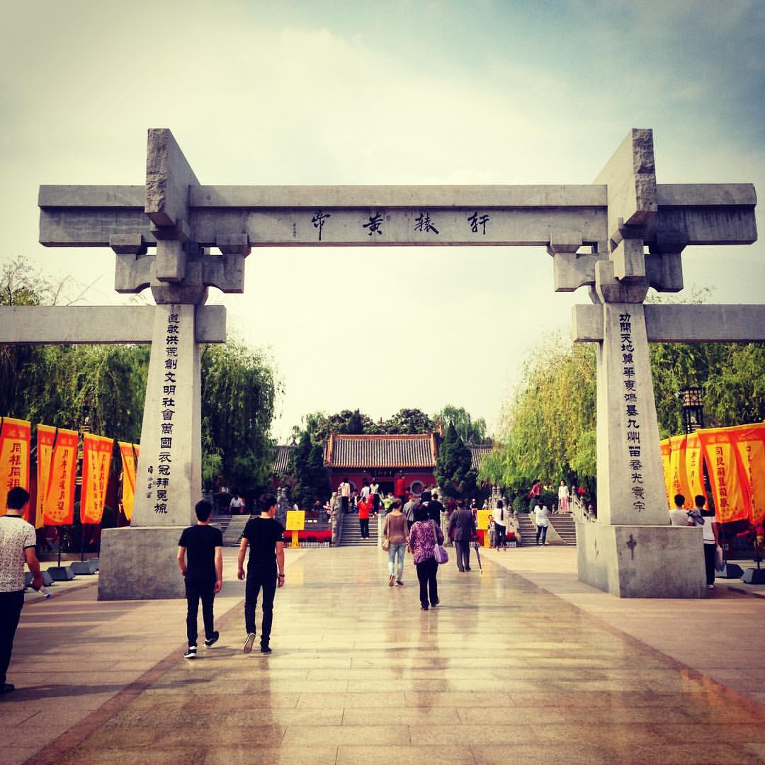 Temple of Xuanyuan Huangdi in Xinzheng, Henan (Xuanyuan's hometown).